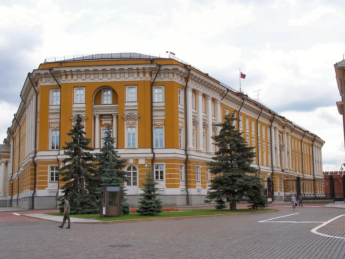 Kremlin Senate